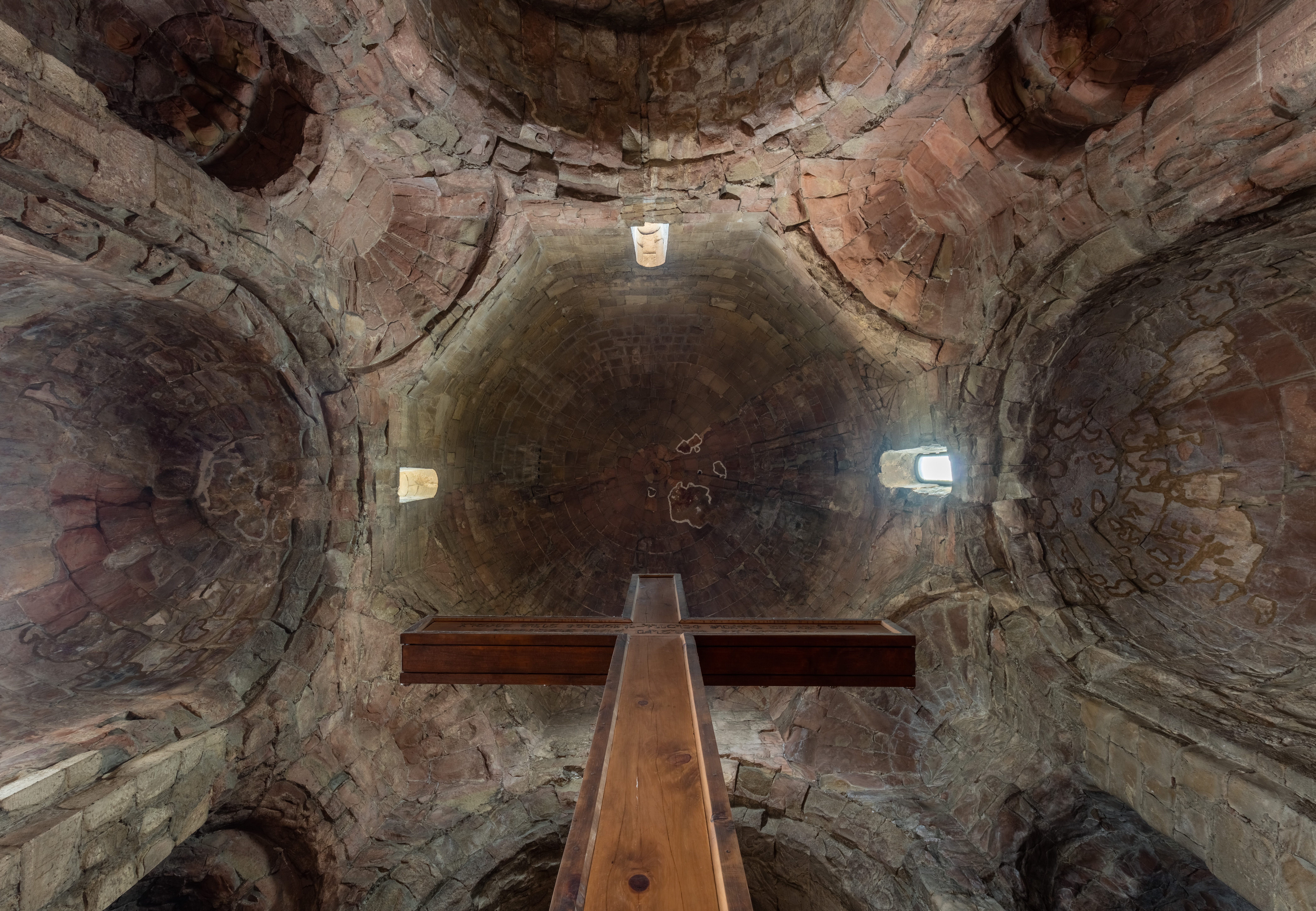 Interior view of main dome of Jvari, a UNESCO World Heritage Site monastery from the 6th century located on a hill over Mtskheta, former capital of the Kingdom of Iberia, Georgia.